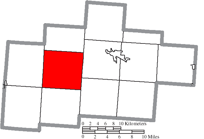 Map of the municipal and township boundaries of Hocking County, Ohio, United States, as of the 2000 census, with the location of Laurel Township highlighted. Township borders are shown only in unincorporated areas in order to differentiate incorporated and unincorporated areas more clearly.